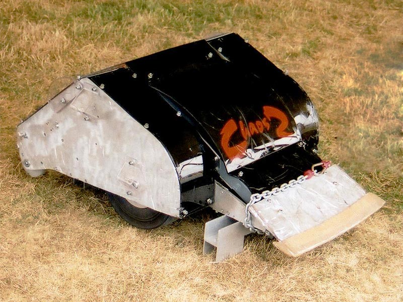 The contestant robot Chaos 2 from Robot Wars. Chaos 2 was created by George Francis.